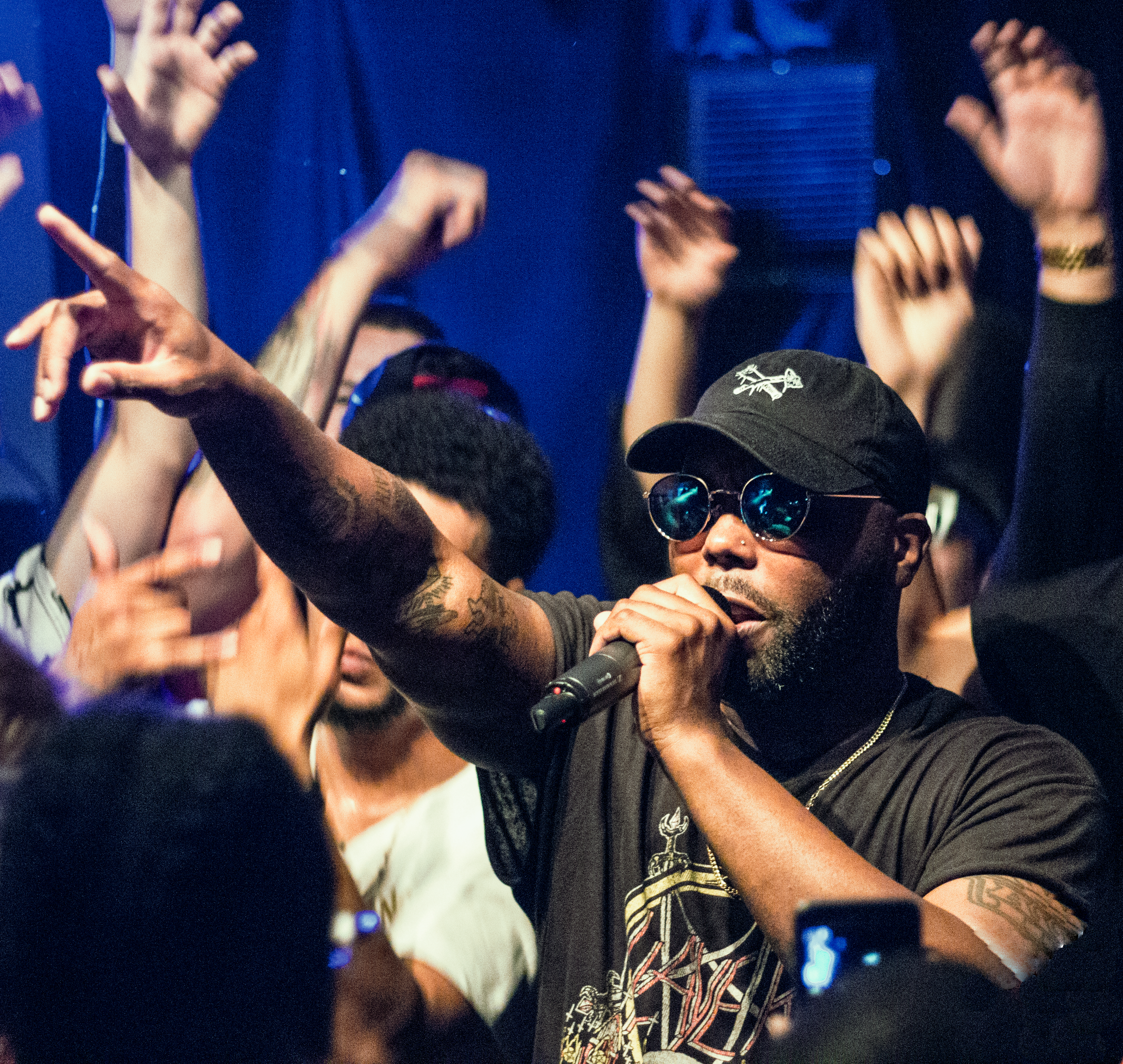 Shot at The Studio Bar on June 25, 2017 Photography for the Come Up Show by (Mac Downey, @mac.all.mighty)